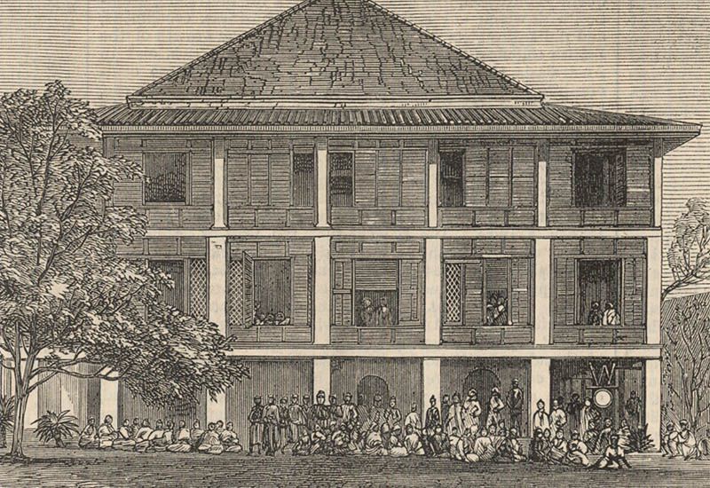 "The revolution in Siam: The British Consulate General, Bangkok" - a depiction of events of the Front Palace crisis taking place at the British Consulate in 1875.